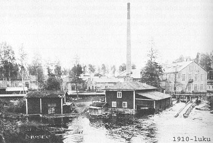 Kangas paper mill in Jyväskylä, Finland in 1910s.